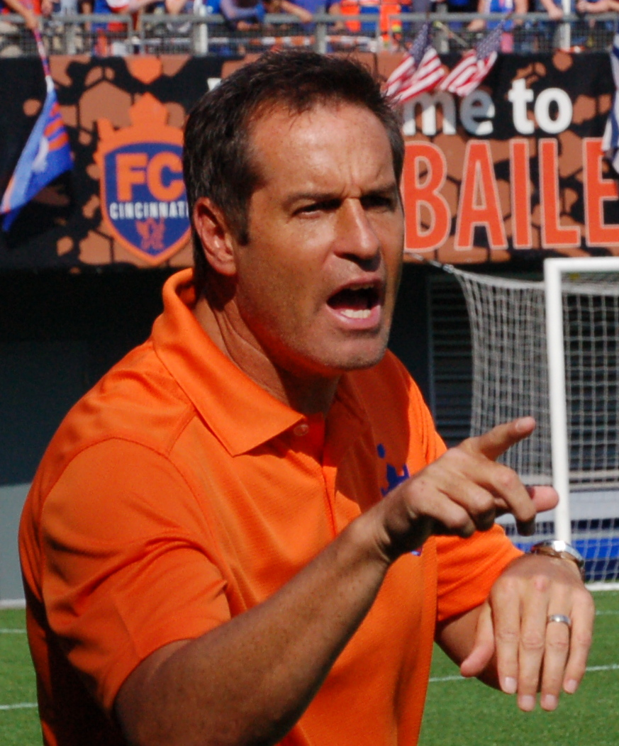 John Harkes, head coach of FC Cincinnati, shouting instructions to his players from the coaches box. Taken during a USL regular season match between FC Cincinnati and Saint Louis FC at Nippert Stadium in Cincinnati, USA on September 5, 2016.